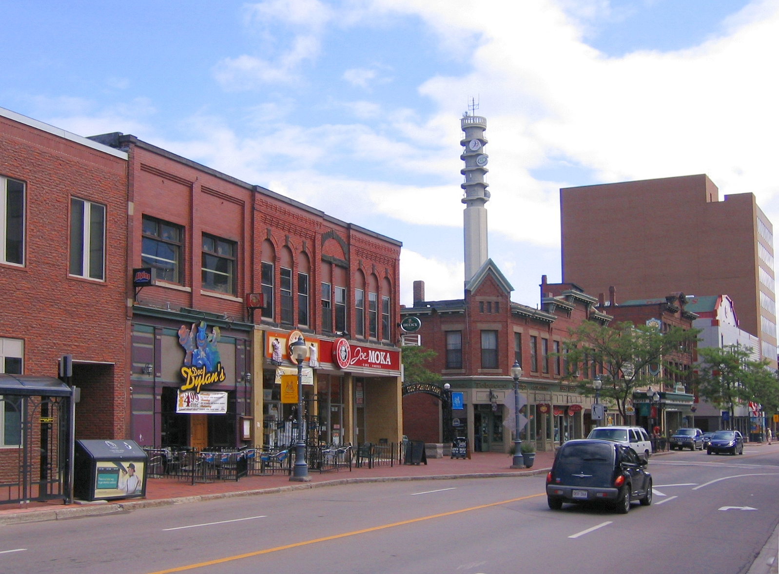 Moncton, New Brunswick, Main Street